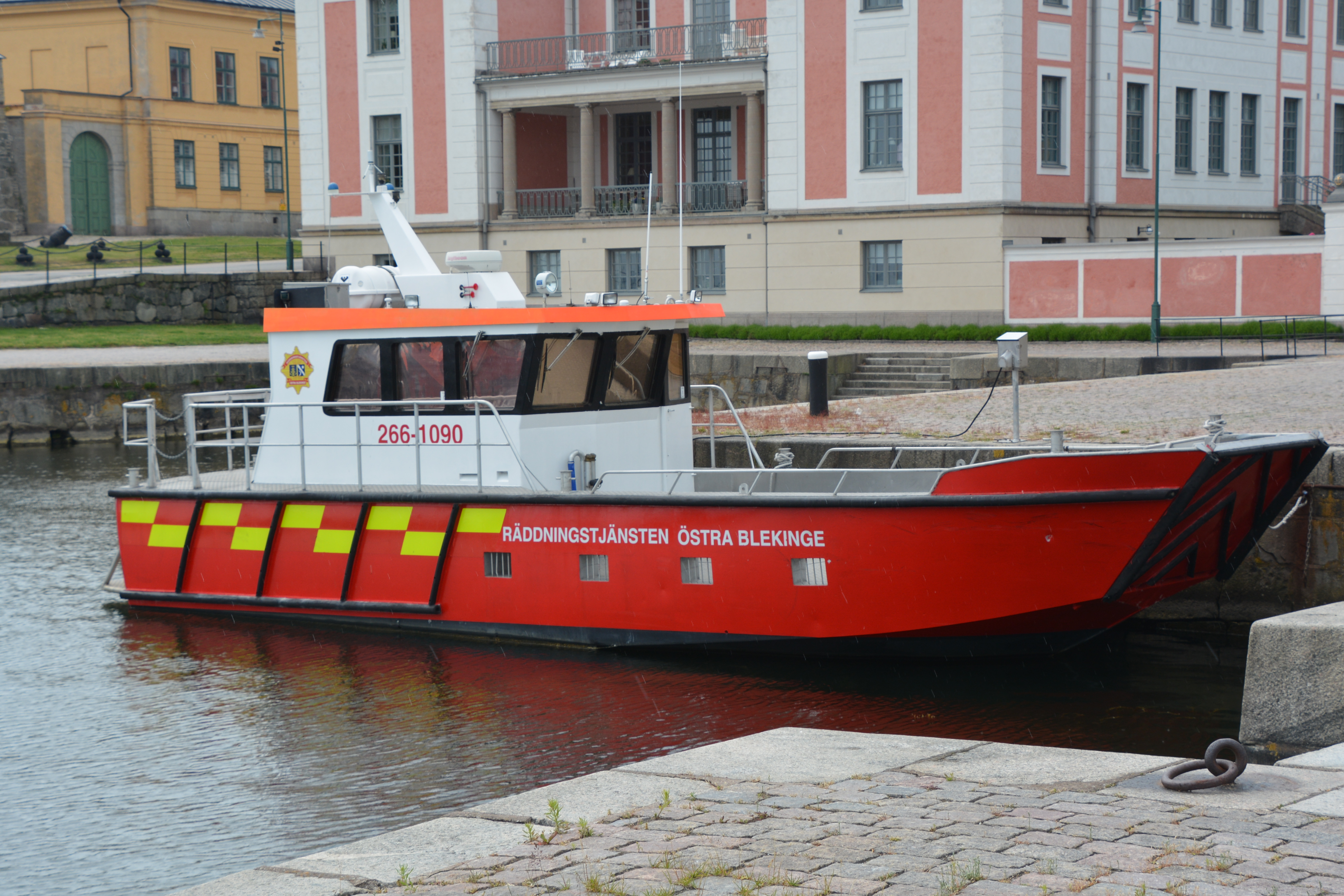 Fireboat in Karlskrona, Sweden